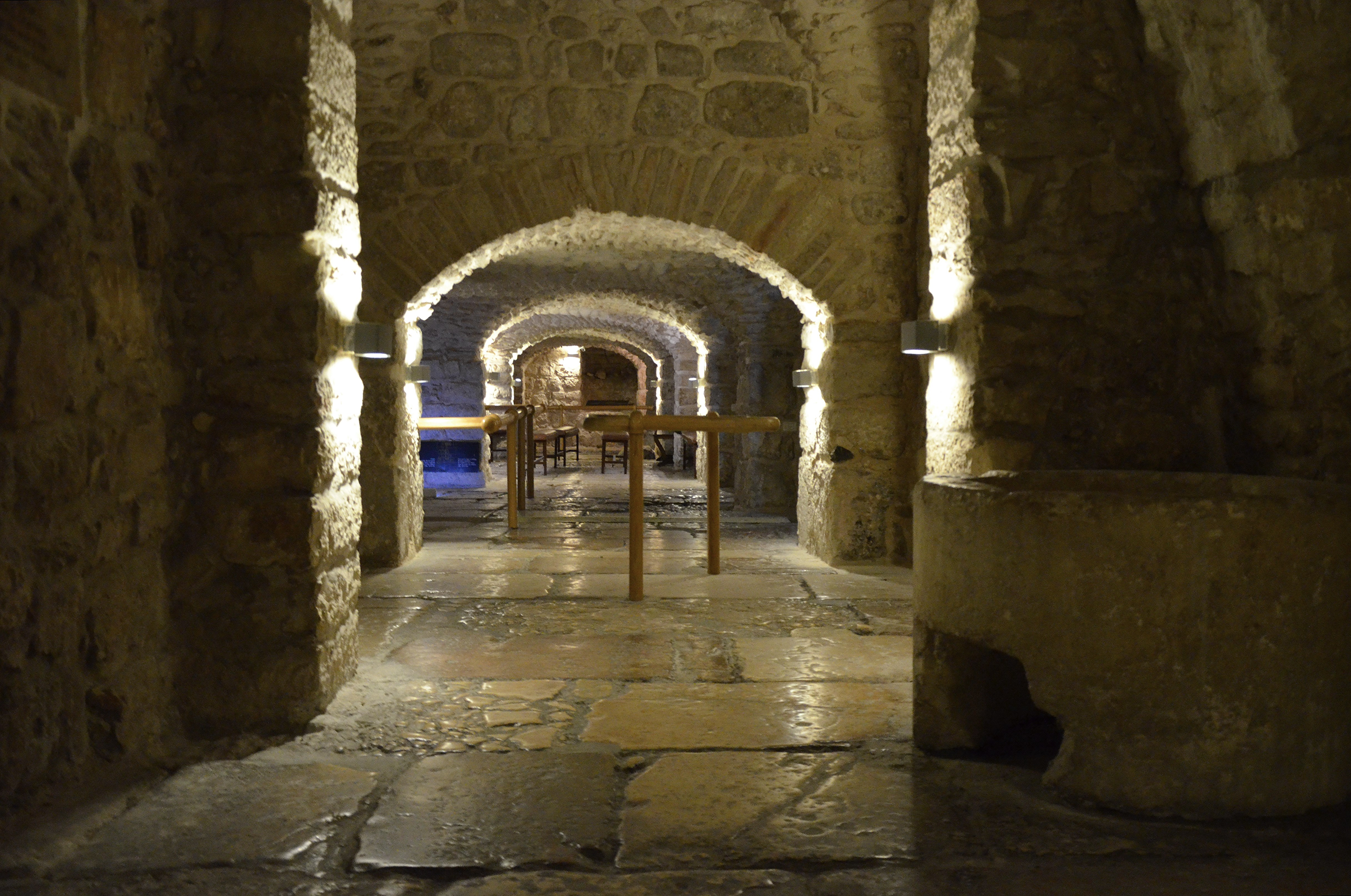 The paving of Hadrian's forum, thought to have been the "lithostrotos" of John's gospel, Aelia Capitolina